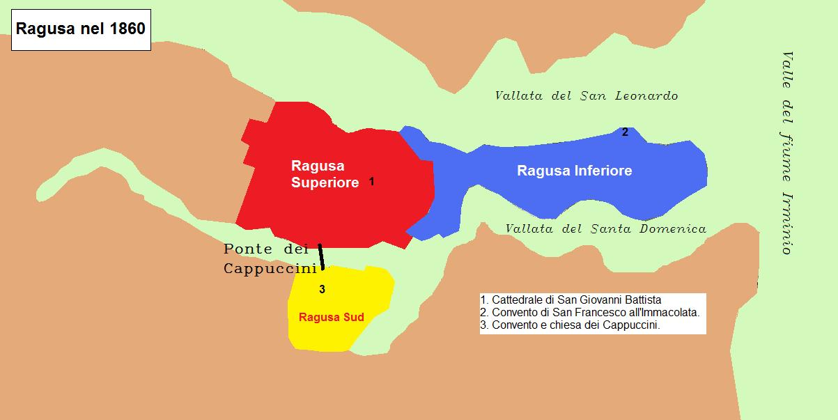 Map of the town of Ragusa (Sicily) in 1860. With details of the Cappuccini Bridge, Cathedral and convents.